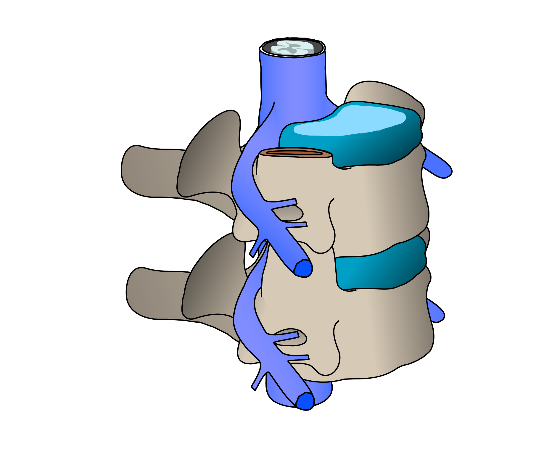 unannotated diagram of cervical vertebrae from an oblique viewpoint